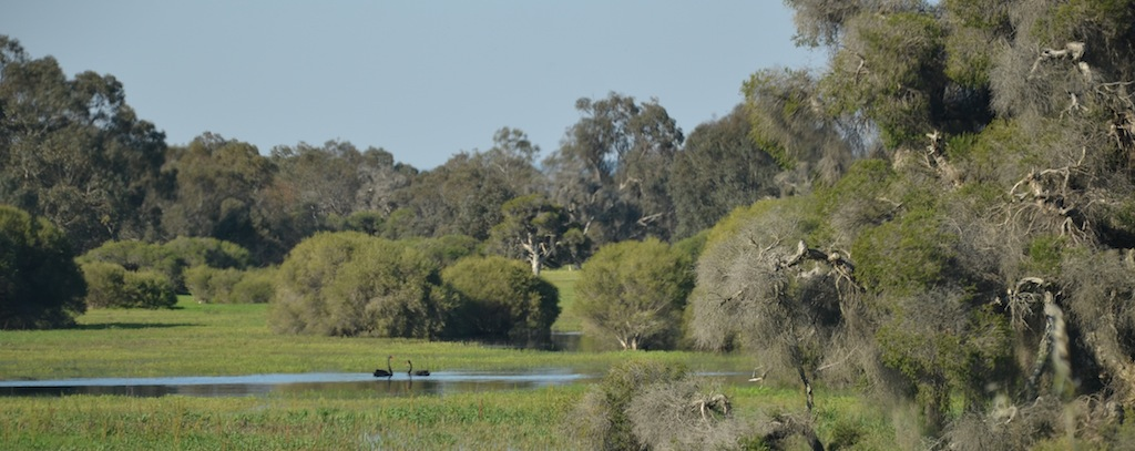 Black Swans at the southern boundary of Whiteman Park, Western Australia